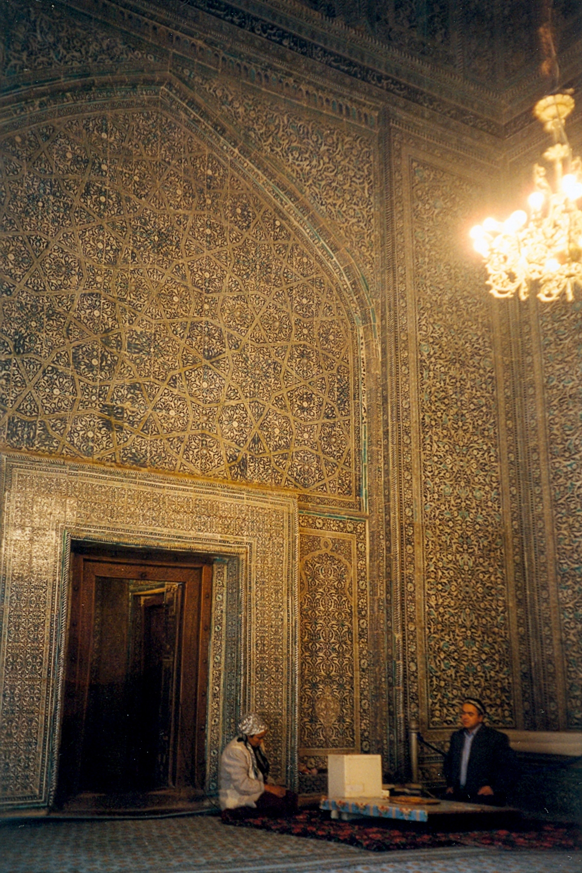 Inside the Mausoleum of Sayid Alauddin, Khiva, Uzbekistan.